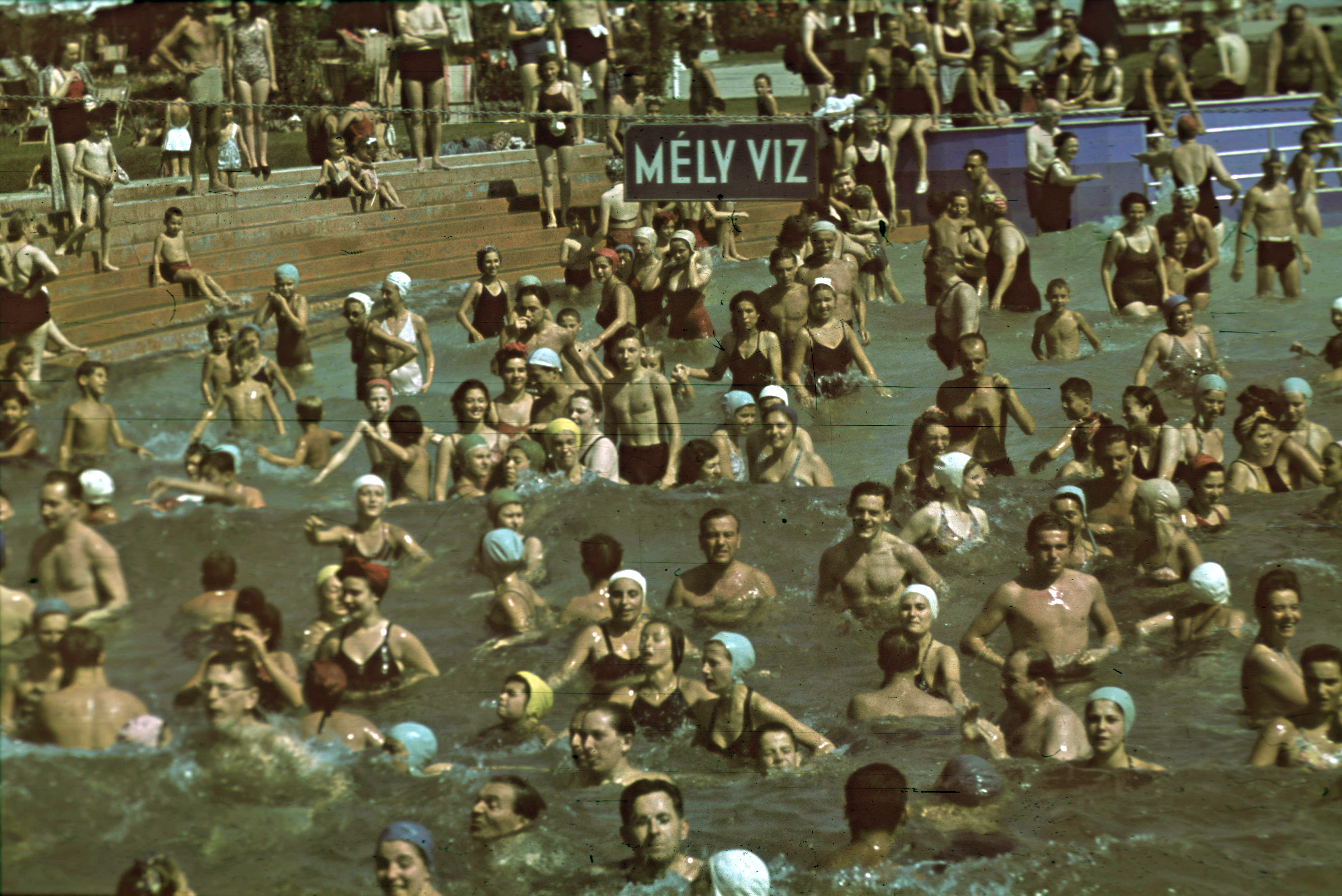 Hungary, Budapest 1939 This Agfacolor photo (invention from 1936) was not colorized. Life before the second world war.